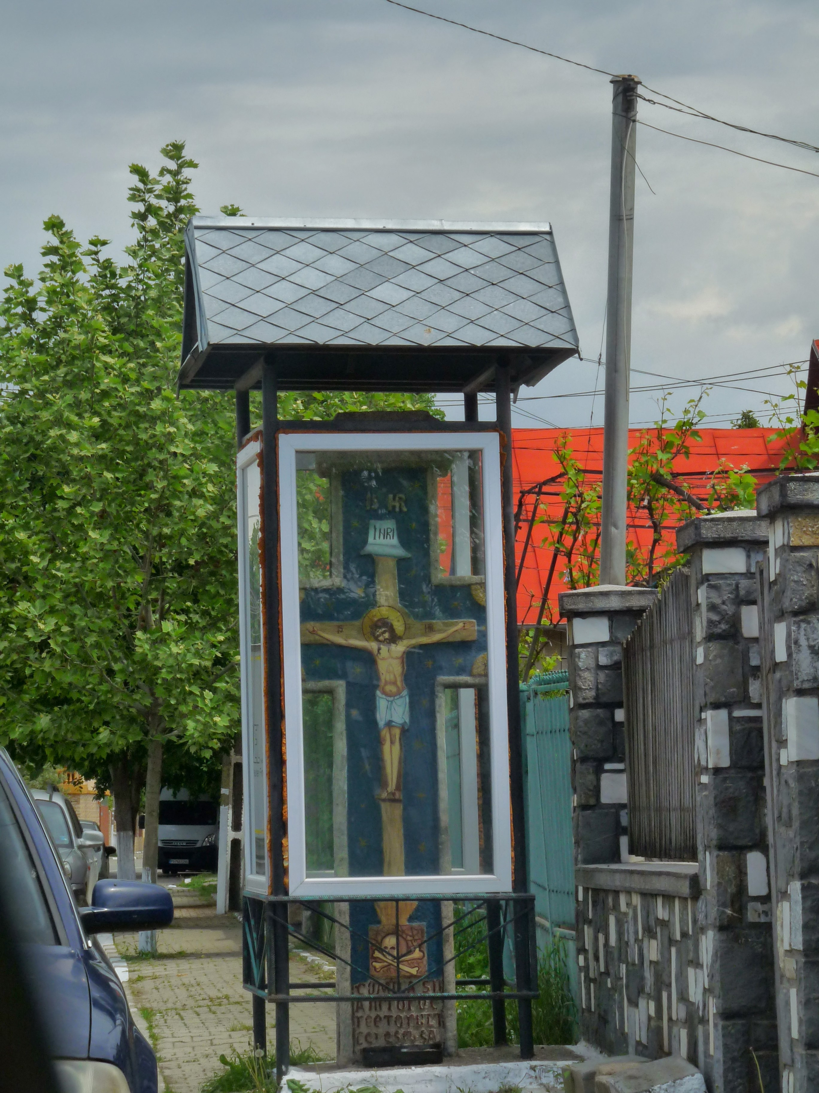 "Crucea Răboajelor" stone cross in Mizil, Prahova County, RomaniaRomână: „Crucea Răboajelor” din Mizil, județul Prahova, România